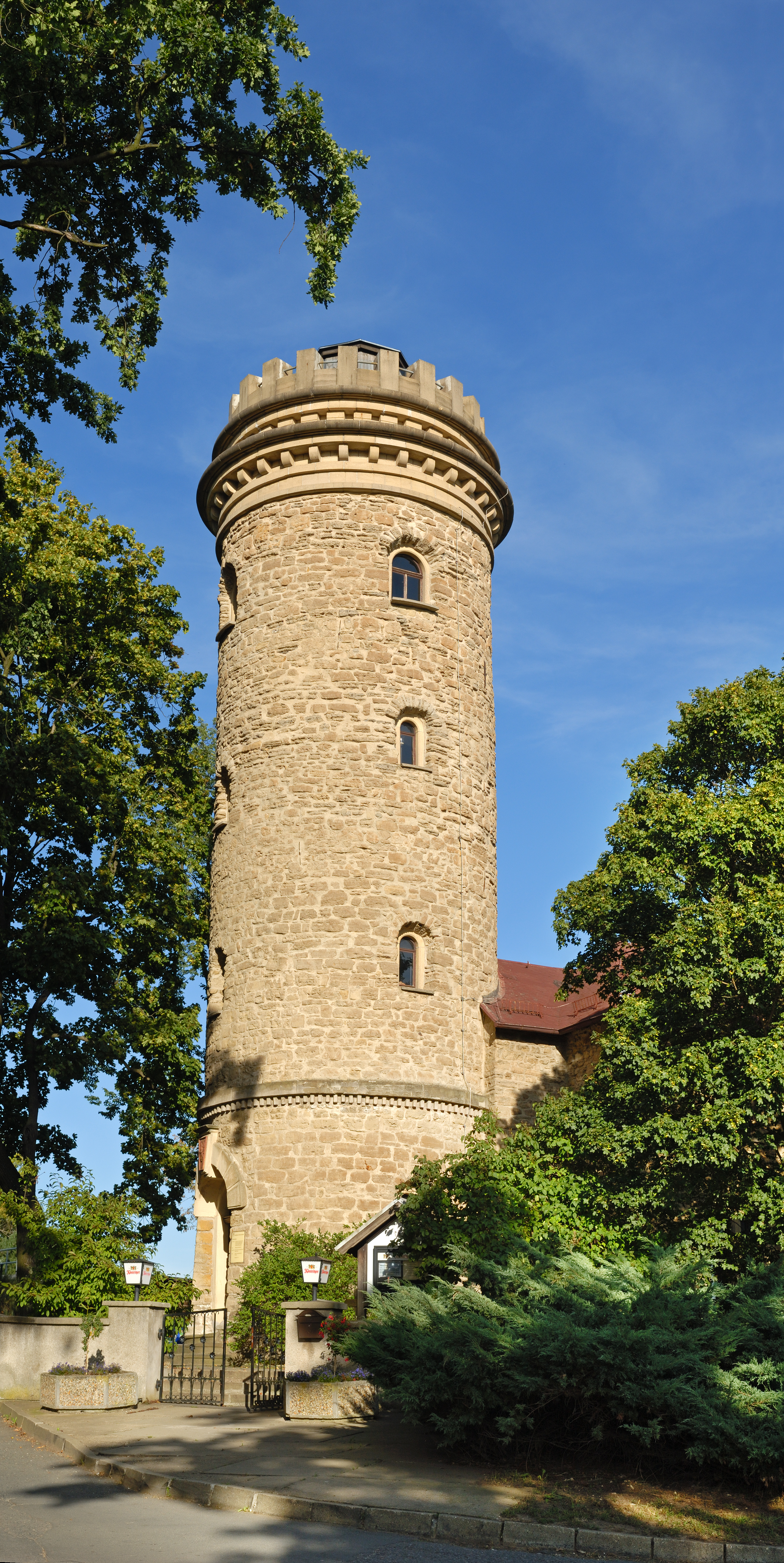 This image shows the tower "Ferberturm" in Gera, Germany. It is a four segment panoramic image.